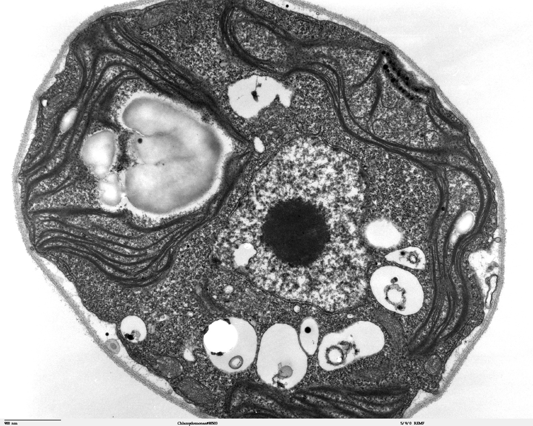 Transmission electron microscope image, showing an example of green algae (Chlorophyta). Chlamydomanas reinhardtii is a unicellular flagellate used as a model system in molecular genetics work and flagellar motility studies. This image of a thin section through a whole Chlamydomonas, shows the nucleus, chloroplast, starch grains, vacuoles, mitochondria, eye spot, and the cell wall.